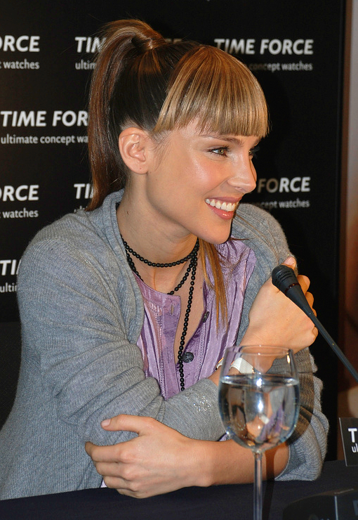 Spanish actress Elsa Pataky at Time Force's new collection presentation. El Informador Digital.